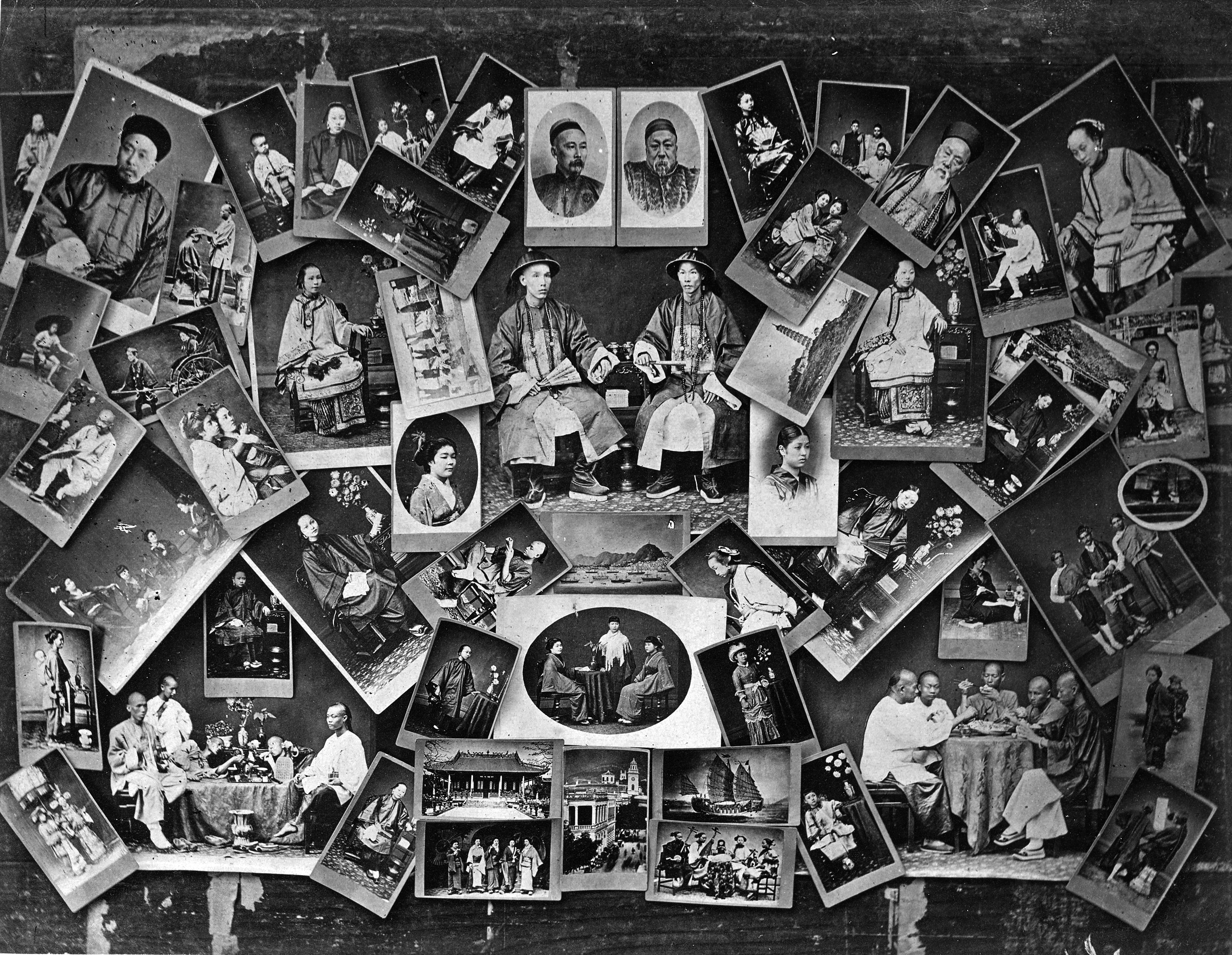 Photograph in People and views of China.